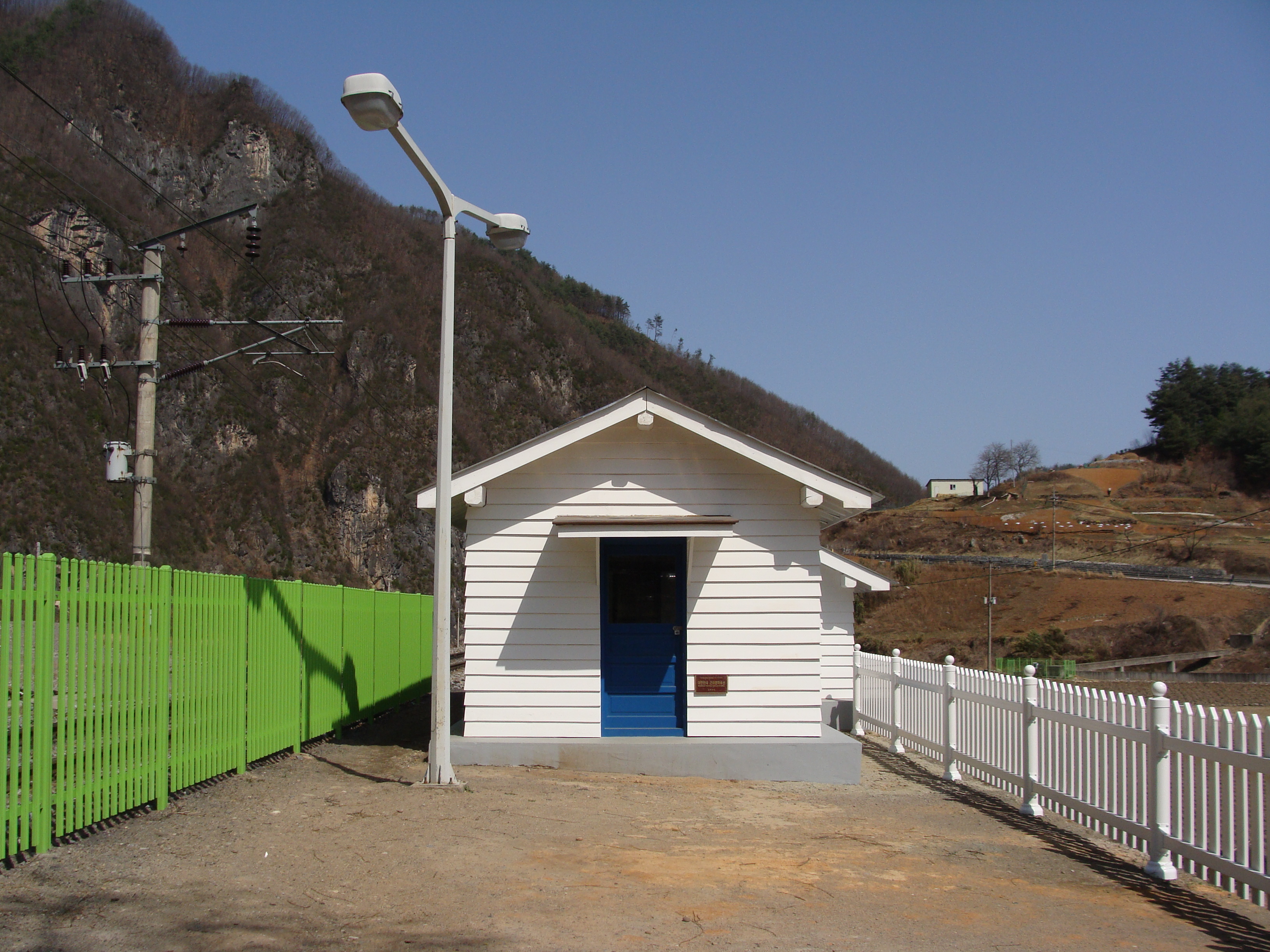 Renewal Version of Hagosari Station, South Korea